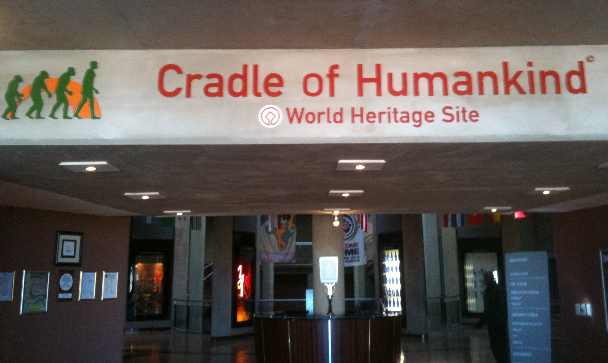 Sign greeting visitors in the lobby of Tumulus Building at Maropeng, near Johannesburg, South Africa